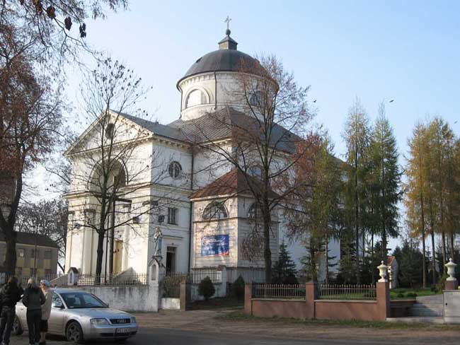 Church in Mokobody